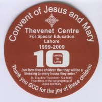 10 year anniversary commemorative sticker